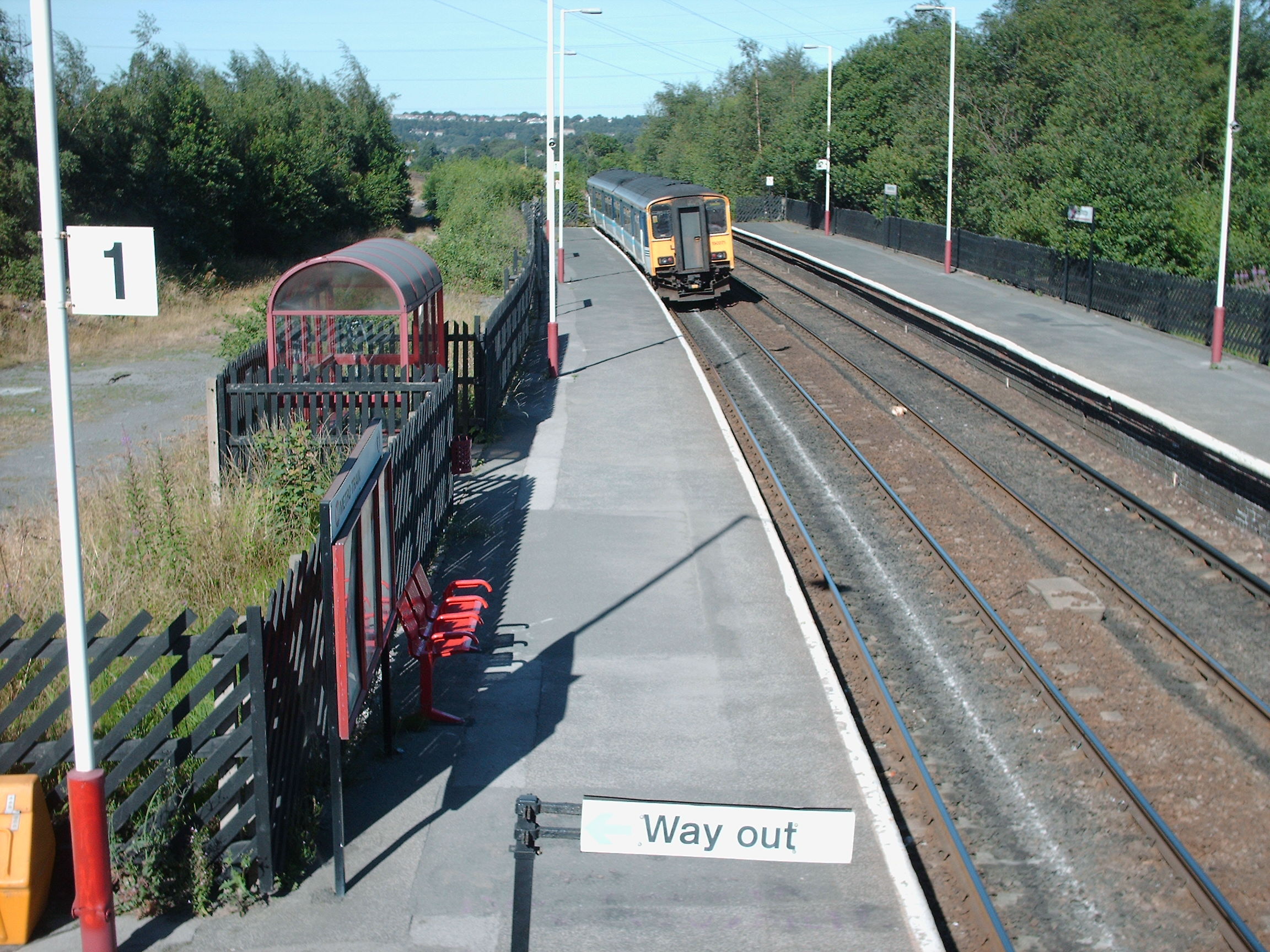 Ravensthorpe station, West Yorkshire. DMU 150271 leaving platform 1.